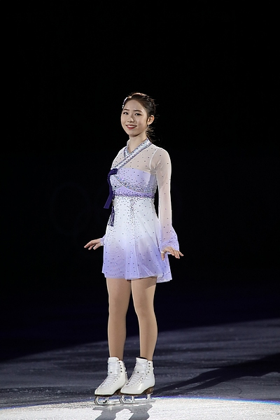 Gala exhibition at the 2018 Winter Olympics